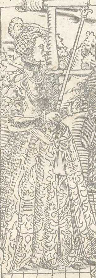 Agnes of Babenberg